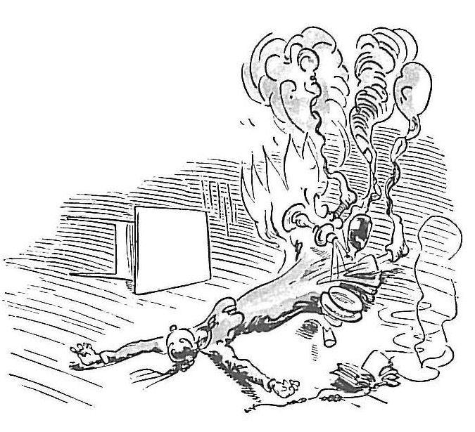 drawing by Wilhelm Busch